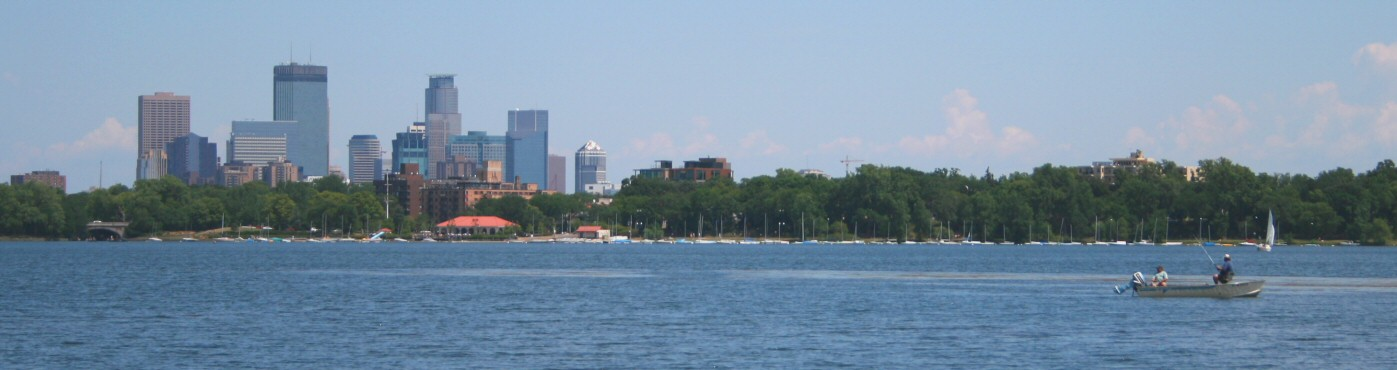 Lake Calhoun, Minneapolis, Minnesota. This copy is cropped and/or modified. The saturation has been increased and the lightness has been decreased slightly.